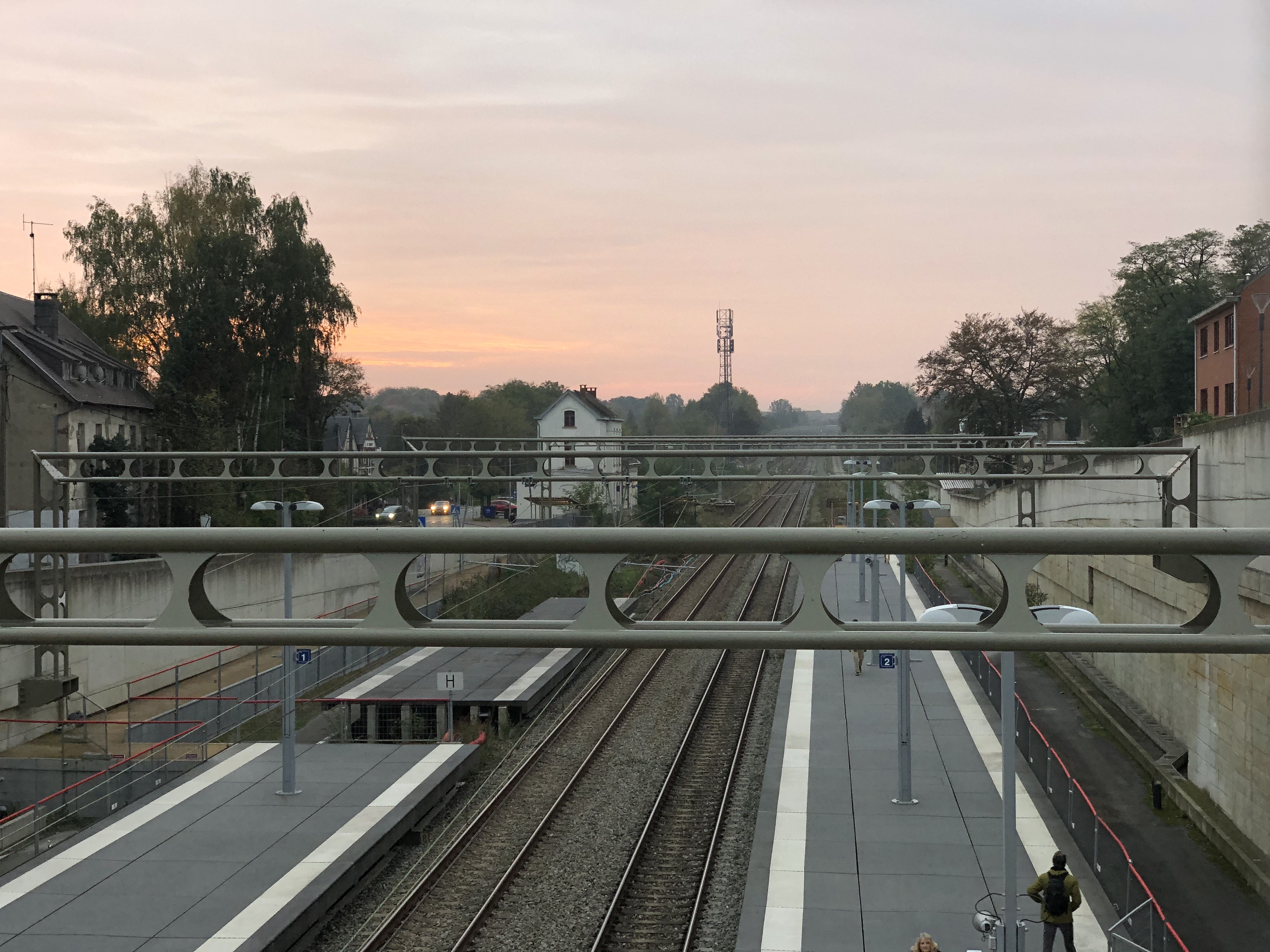 Vue prise depuis la dalle de la gare de Rixensart, vers le côté sud. On peut voir à la droite le quai 2 achevé vers Bruxelles, et à gauche la quai 1 inachevé vers Ottignies. La dalle manquante dans la quai 1 est l'emplacement de l'ancien poteau de caténaire.